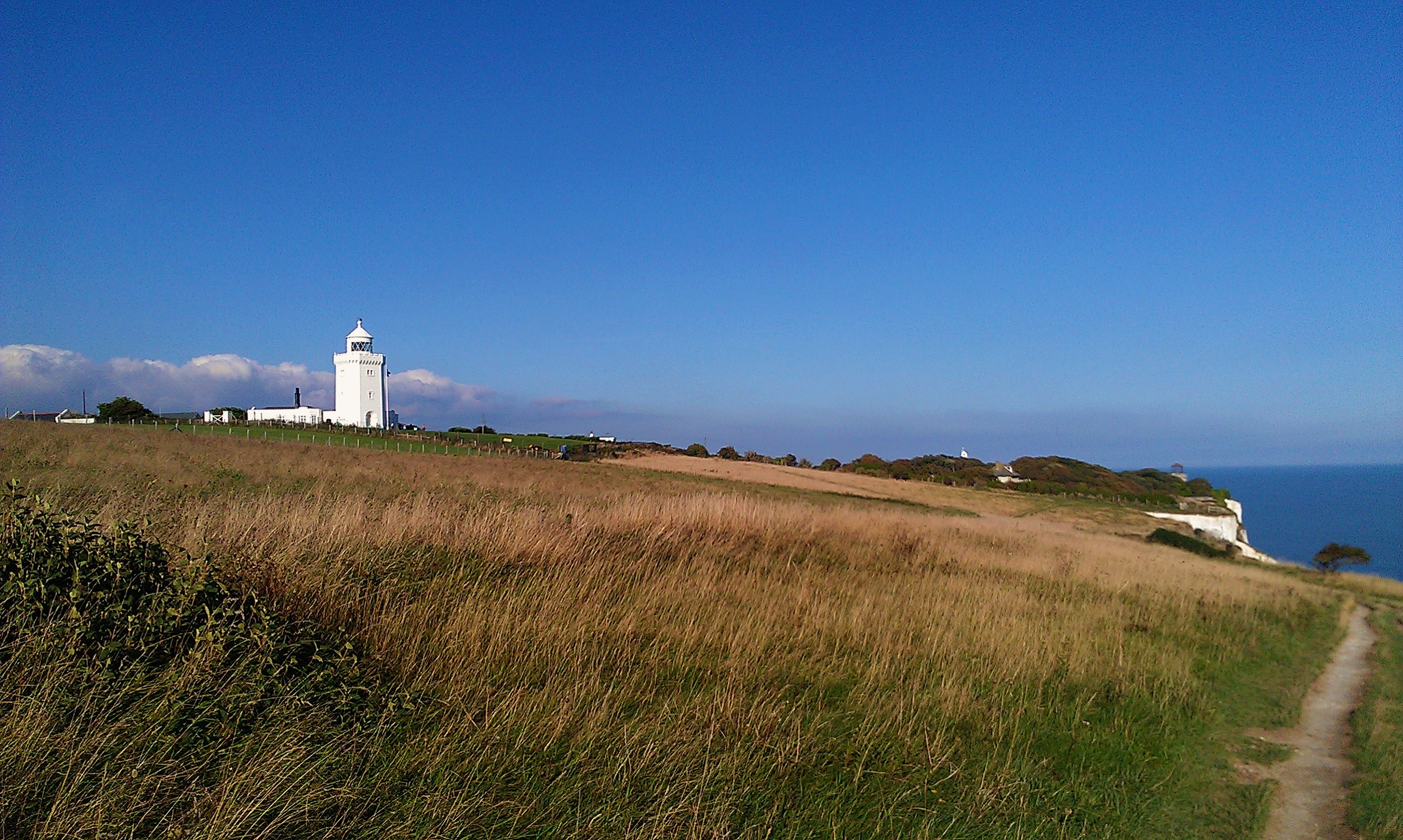 South Foreland Lighthouse atop the White Cliffs of Dover as approached from Dover, Kent, in south-east England.